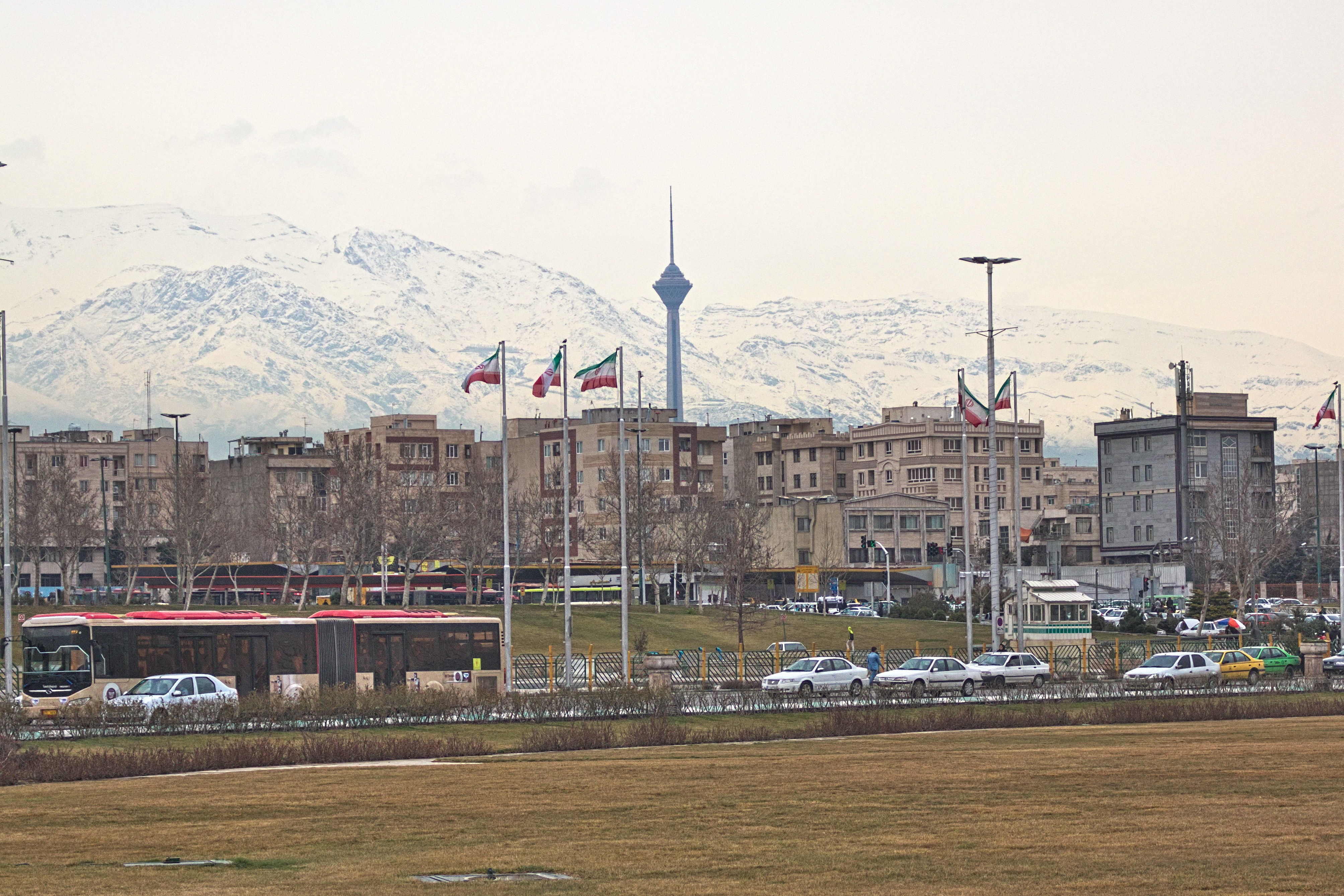 Milad tower in Tehran as seen from Azadi square.